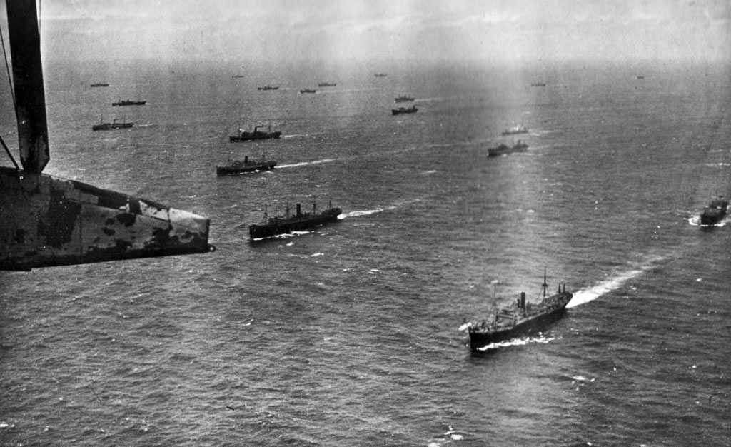 An Atlantic convoy underway as seen from a Royal Air Force Short Sunderland flying boat.